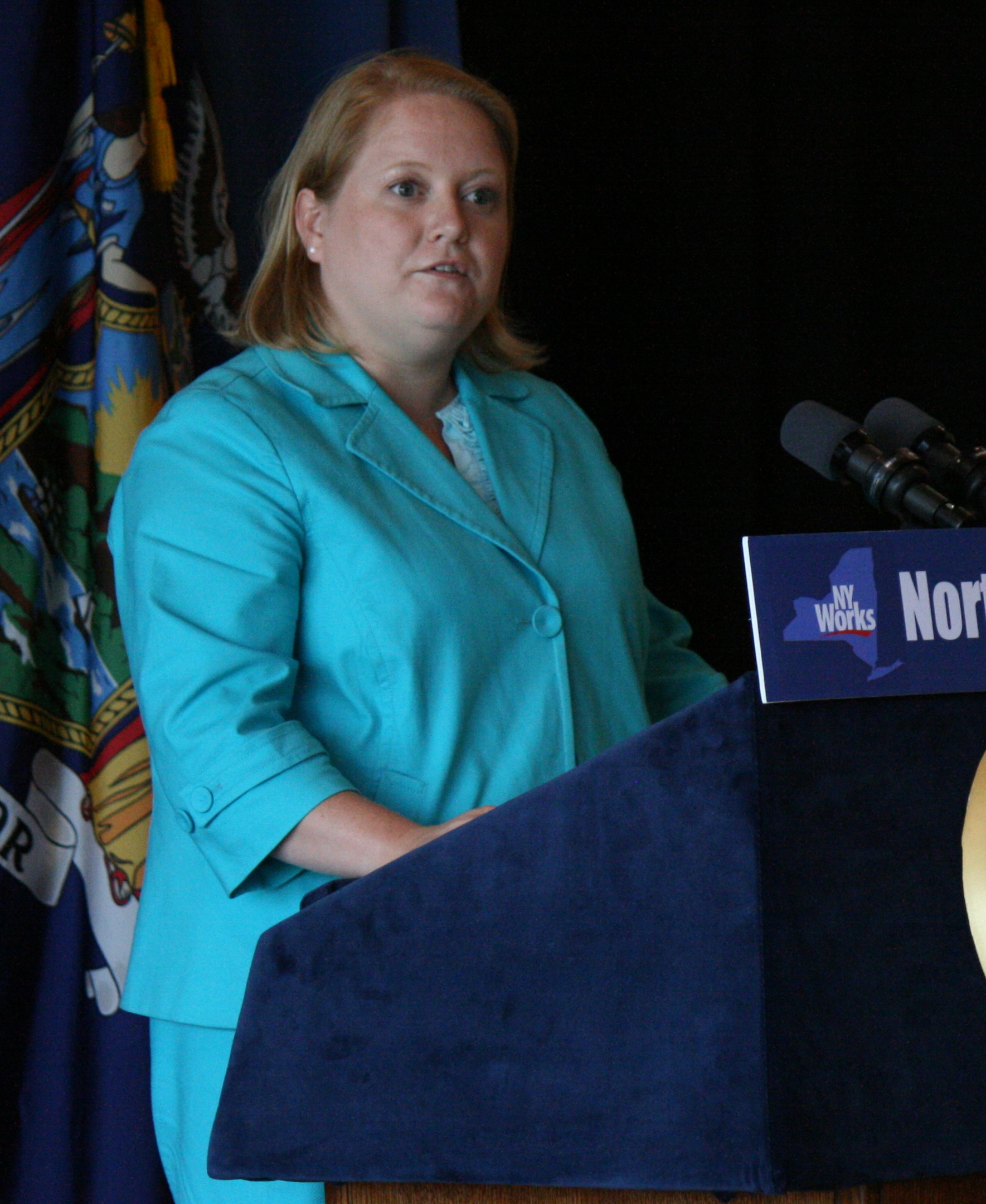 NY State Assembly Woman Addie Jenne Russell